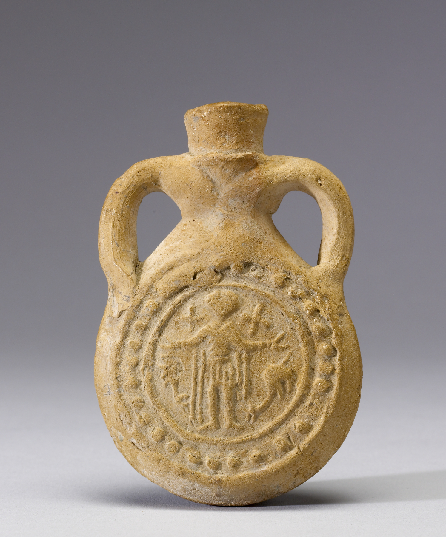 St. Menas is dressed in a soldier's tunic, his arms extended in the early Christian pose of prayer. The patron saint of merchants and caravans, he stands between two kneeling camels. St. Menas was martyred in AD 296 and buried in the desert west of Alexandria (in northern Egypt). Pilgrims came to the saint's shrine for the healing powers of its sacred oil, carried away in these small flasks.